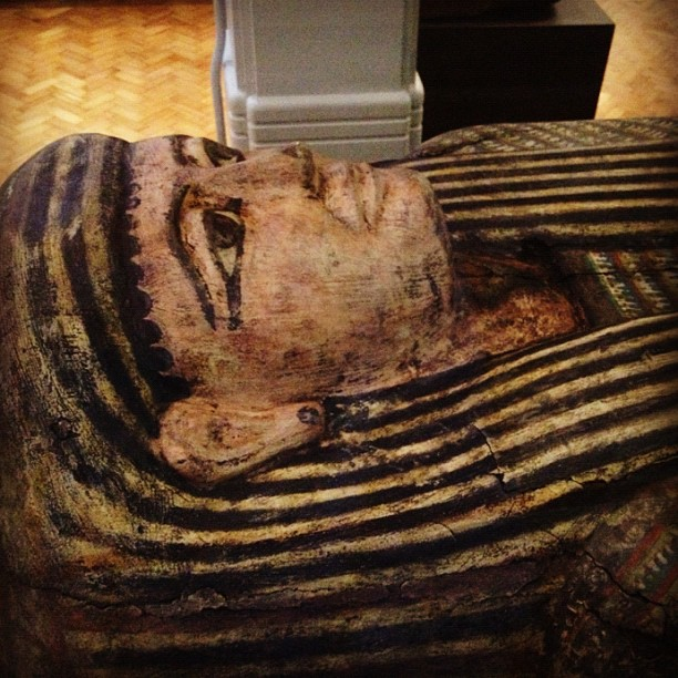 Coffin of Asru (Acc. 1777.a-c) Asru and her two wooden coffins were presented to the Manchester Museum by Robert and William Garrett in 1825. They were the first Egyptian antiquities to enter the collection. The style of the coffins' decoration dates to between Dynasty 25-25 (c. 747-525 BC). Asru was a temple chantress at Karnak and was probably buried in western Thebes. Her mummy had been unwrapped before it arrived at the Museum. The inner and outer coffins are painted with religious scenes and inscriptions, identifying Asru as a priestess of Amun at Thebes. Her mummified internal organs were originally wrapped in linen and placed on her thighs in the burial (Acc. 11727.a-b). A reconstruction of Asru's face and head was made in the 1970s by Richard Neave. Modern examinations of the mummy indicate that Asru died around age 60 and suffered from arthritis and a parasitic bladder infection (bilharzia or schistosomiasis).